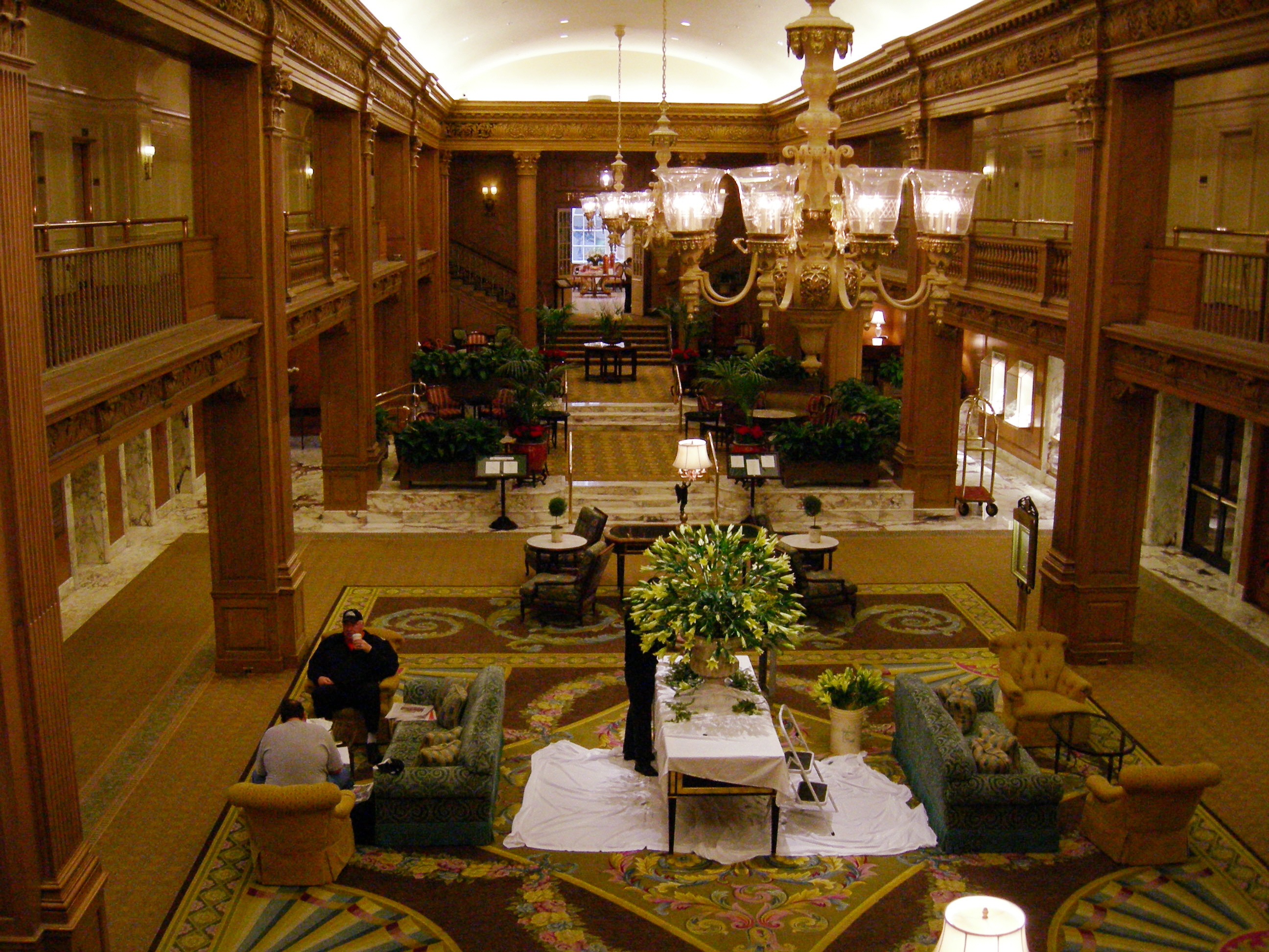 Lobby, Olympic Hotel, Seattle, Washington. The hotel is on the National Register of Historic Places.